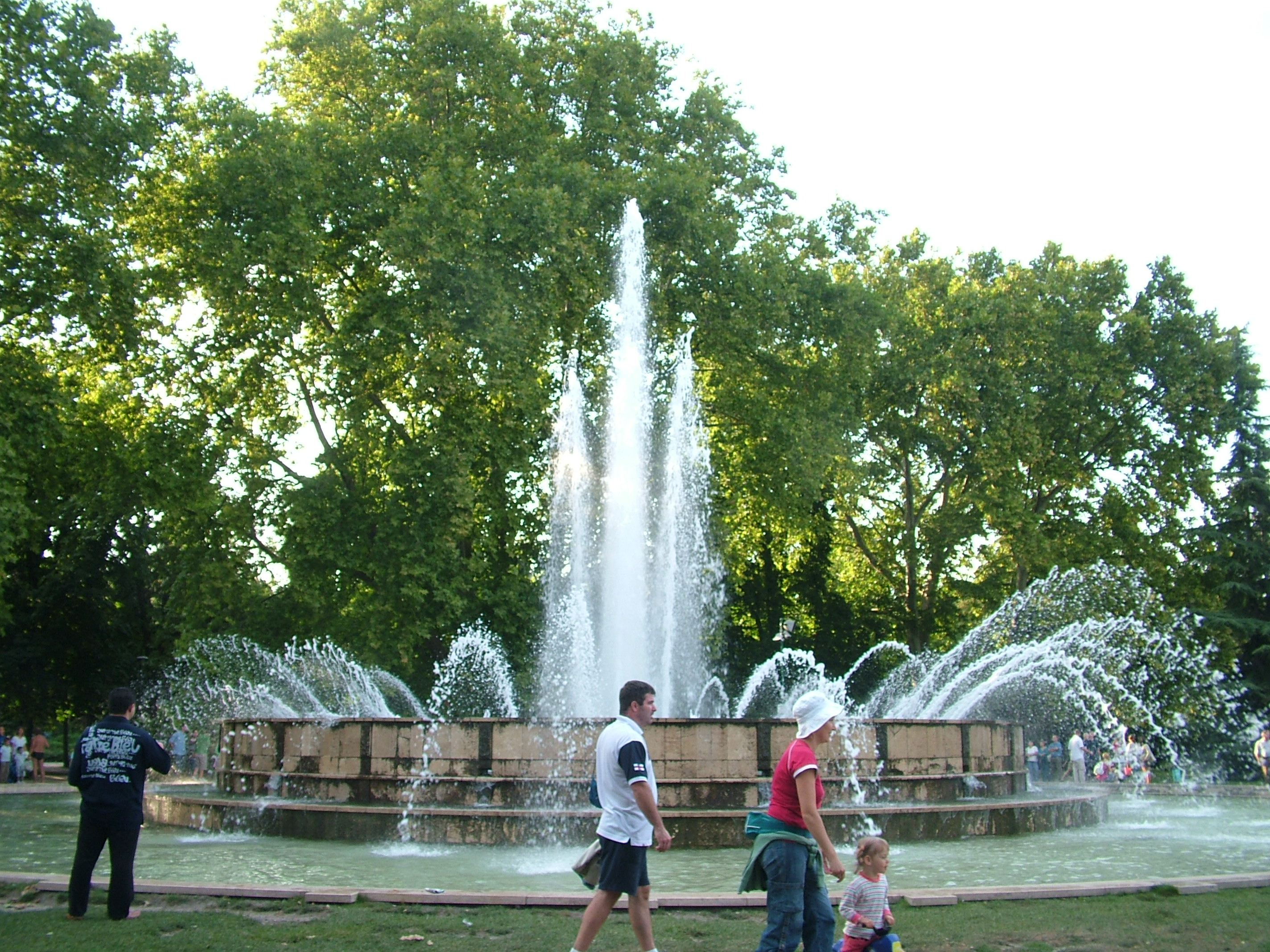 Hungary, Budapest, Margit Island